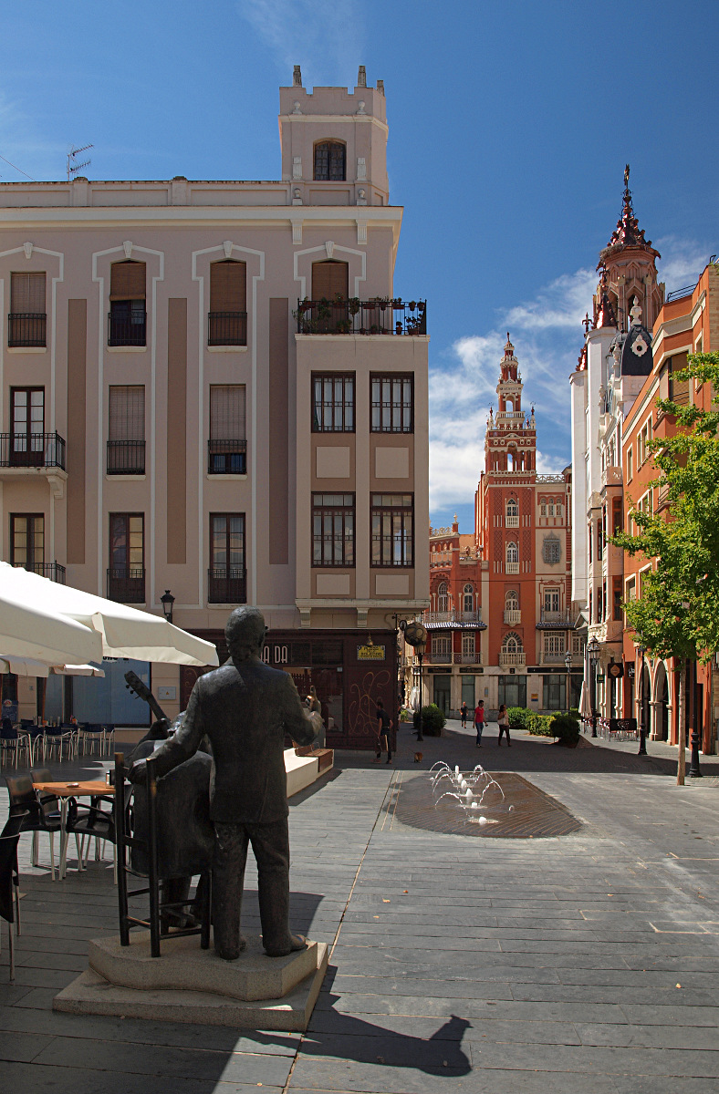 Badajoz, Plaza de la Soledad